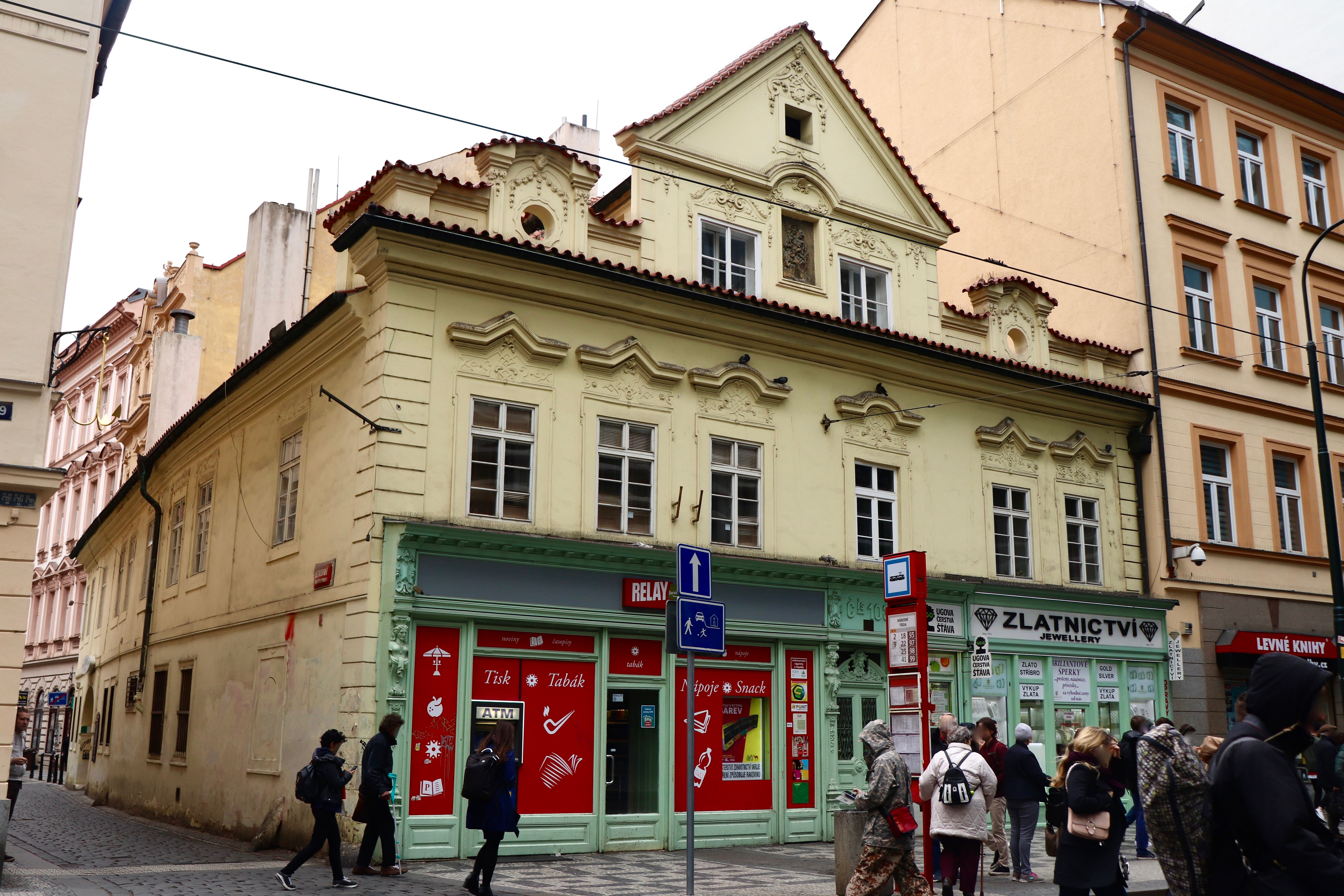 Pohled na dům z ulice Spálená